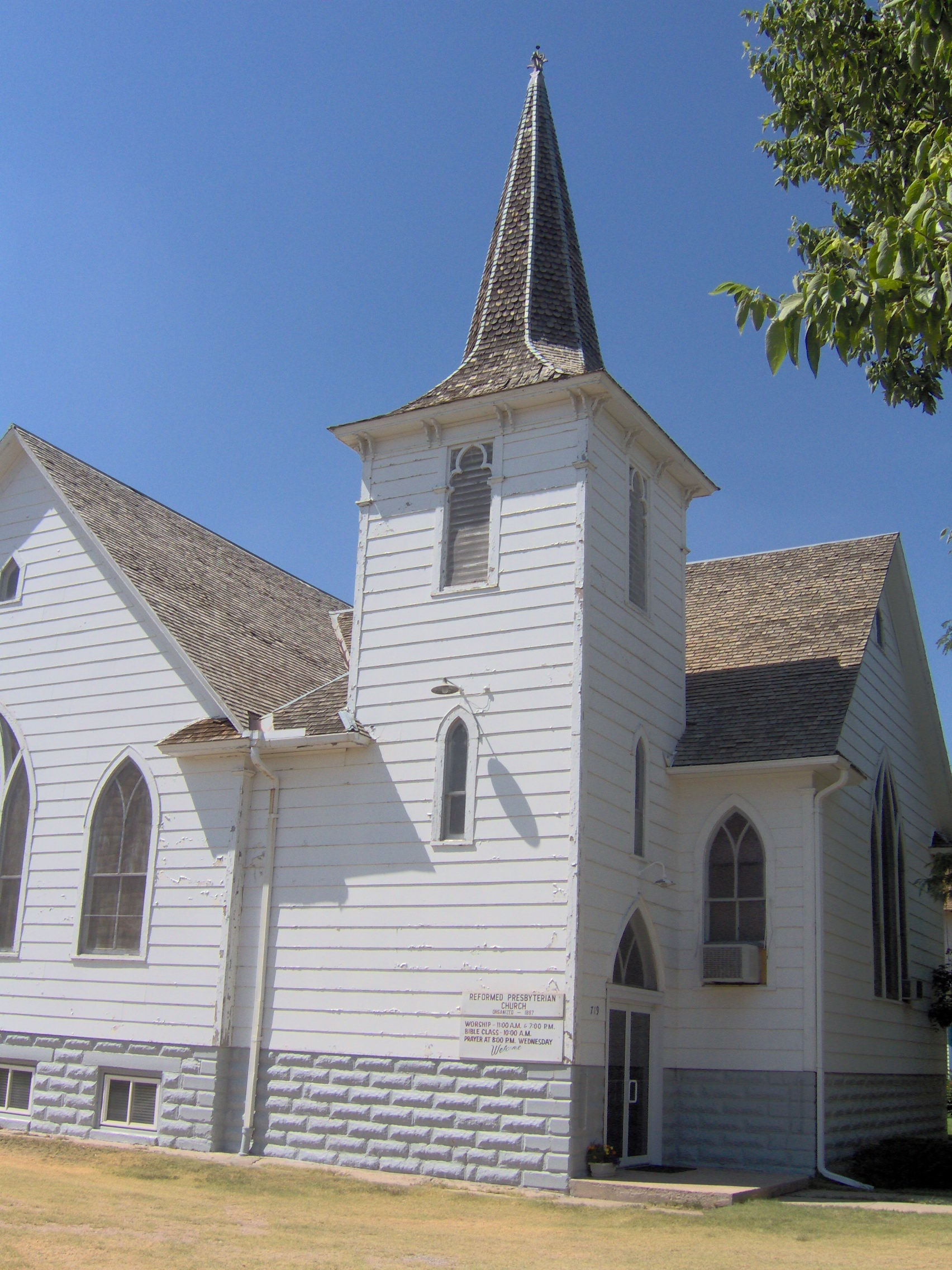 Entrance at the southeastern corner of the Quinter Reformed Presbyterian Church, located at 719 Gove Street in Quinter, Kansas, United States.